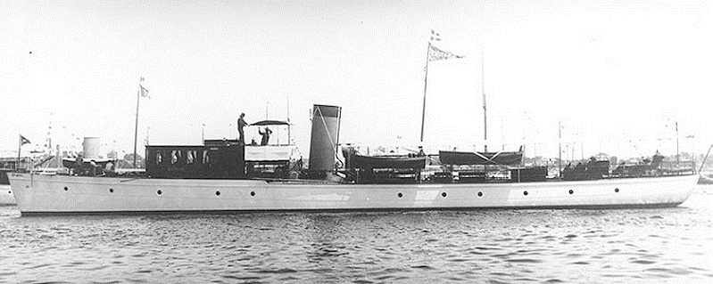 Photographed prior to World War I. She is flying a pennant that appears to bear the word "Baryard." USN Photo NH 95887